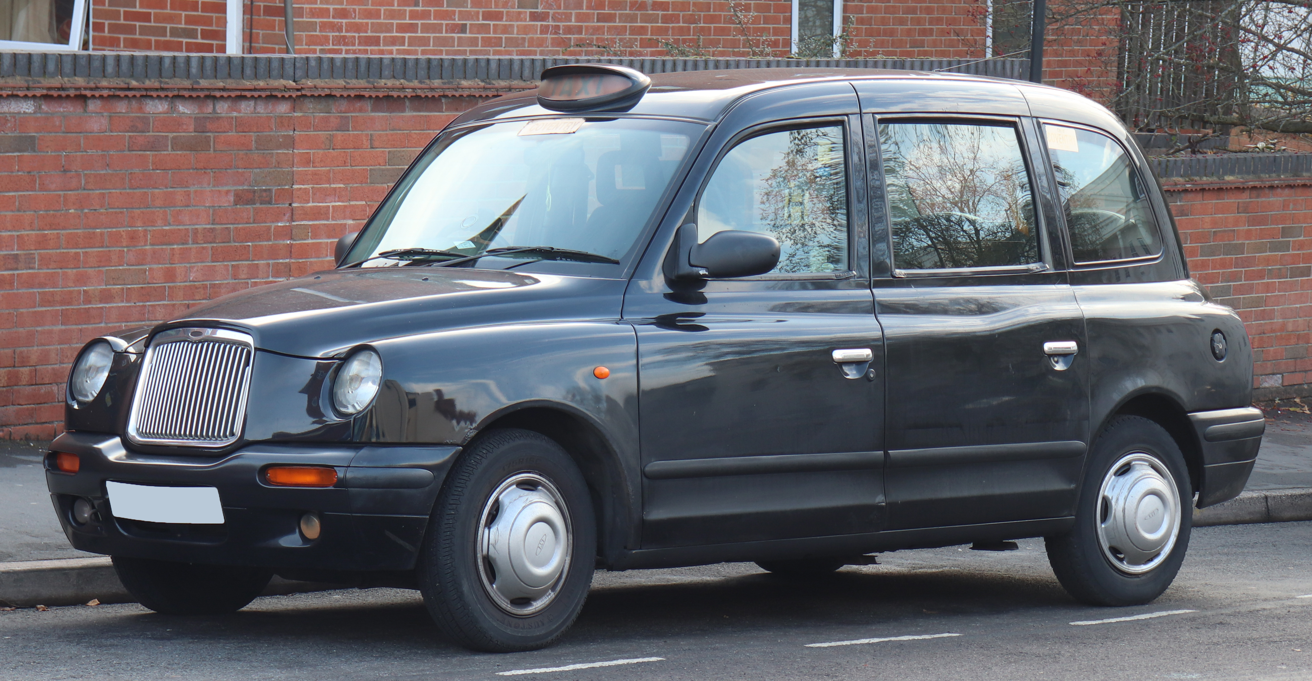 2005 LTI TXII Silver Automatic 2.4 Front Taken in Leamington Spa